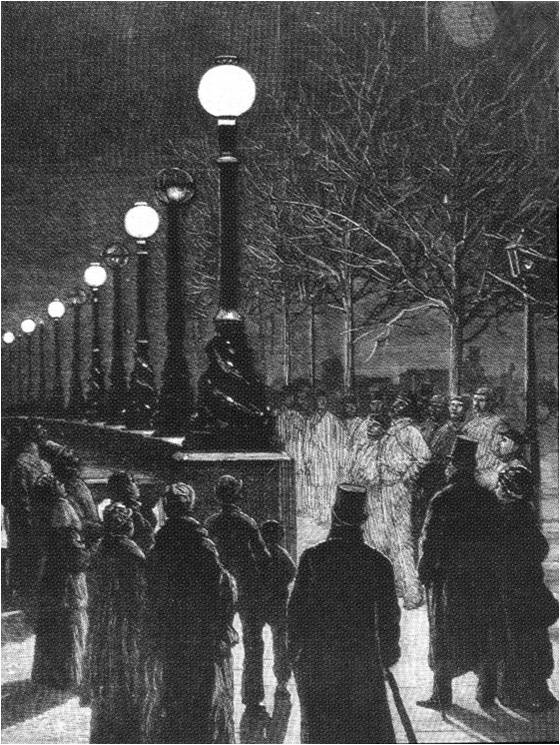 In 1878 the Victoria Embankment (near Westminster Bridge), which was previously lit by gas, was illuminated with Jablochkoff Candle arc light alternating with the original gas standards to show the difference. Supply came from Gramme AC generators. The prime movers were steam engines made by Ransomes, Sims and Head of Ipswich. In June 1884, gas lighting was re-established as electricity was not competitive. The original lighting standards are still in situ.